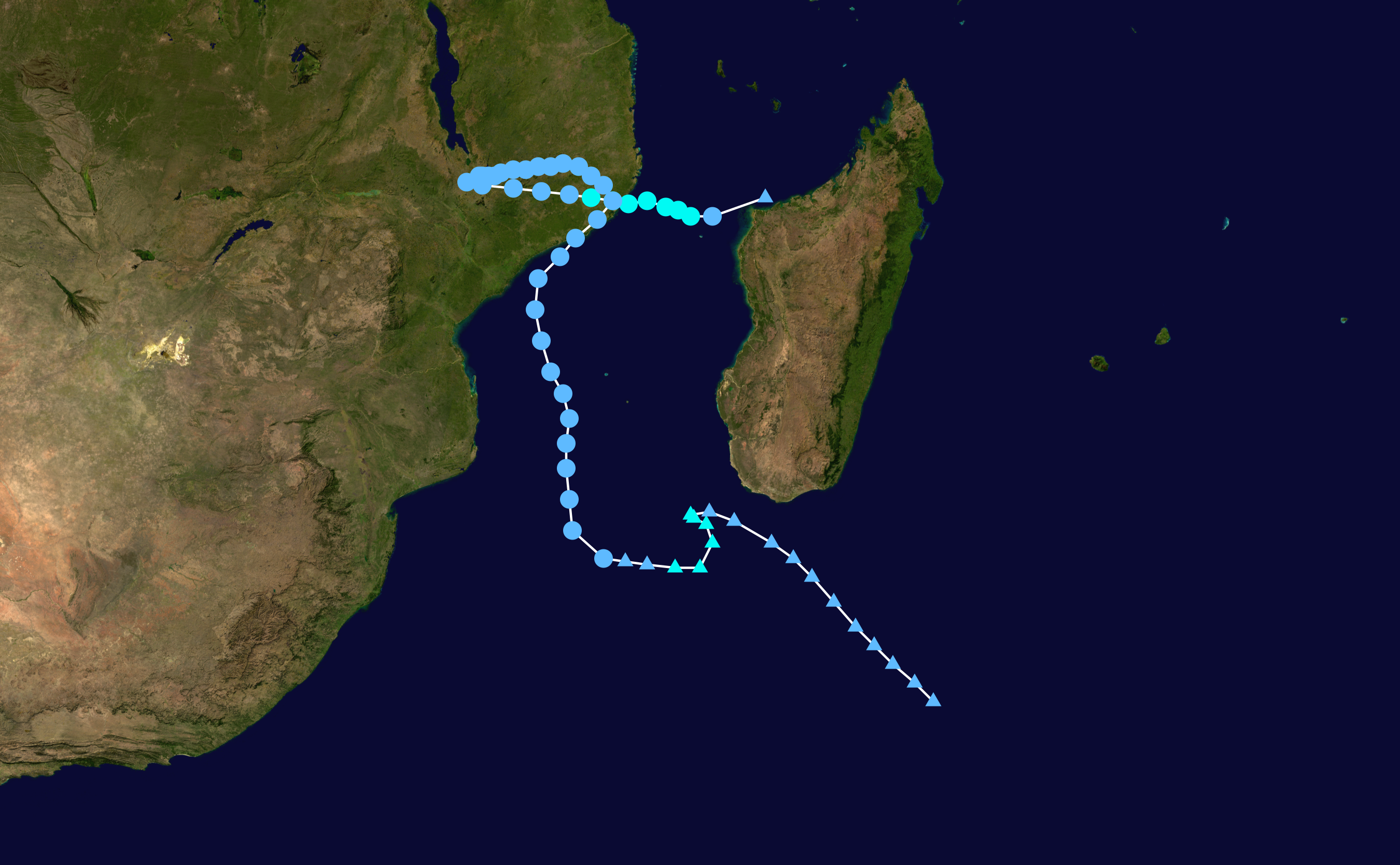 Cyclone Delfina (2002) track. Uses the color scheme from the Saffir-Simpson Hurricane Scale.